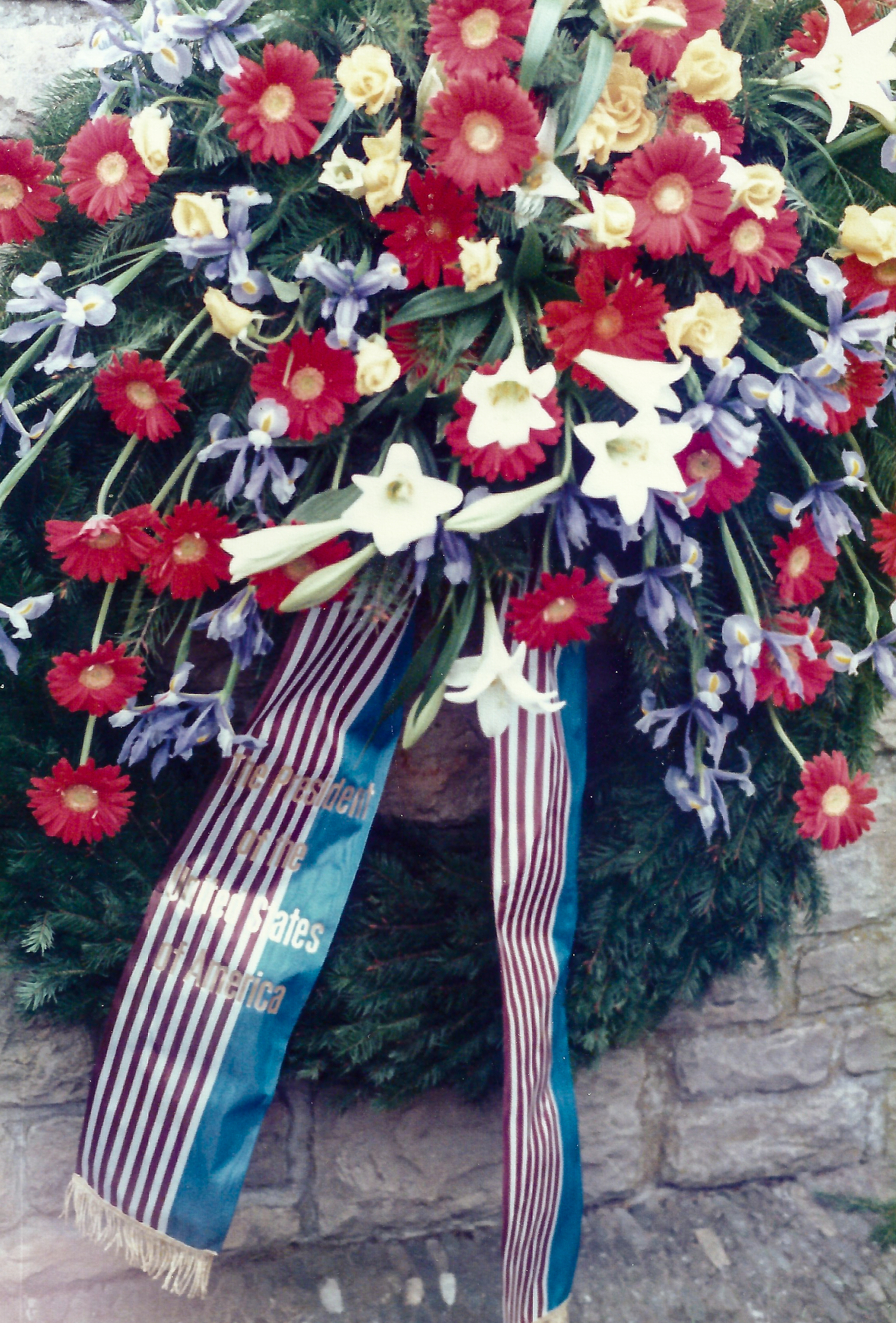 Ceremonial visit by U.S. President Ronald Reagan to the Kolmeshöhe Cemetery, near Bitburg, West German in May 5, 1985, with German Chancellor Helmut Kohl // Detail: presidential wreath at a wall of remembrance